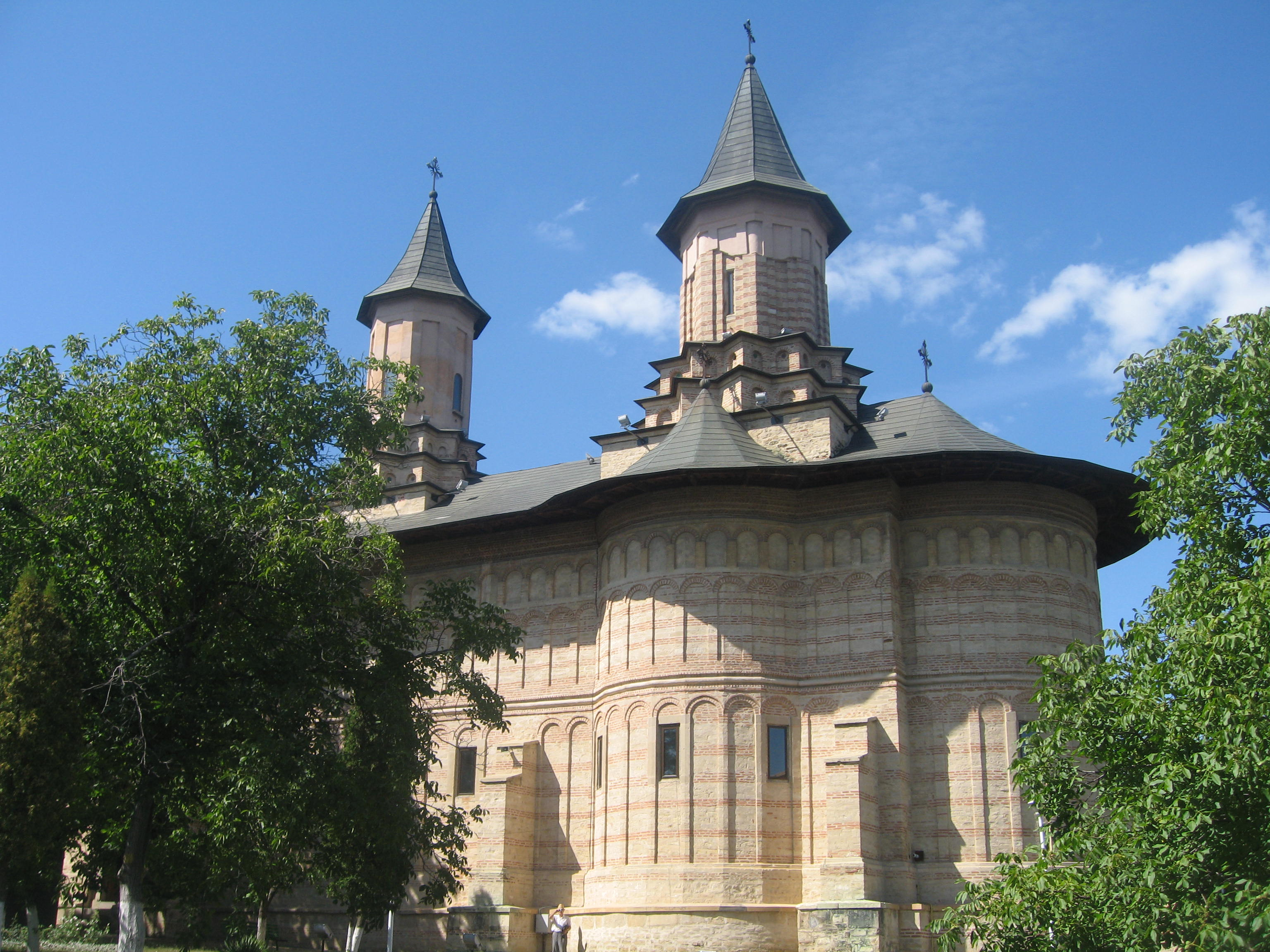 Manastirea Galata